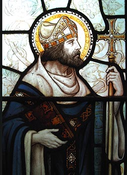 Saint Dyfrig, also known as Dubricius. Stained glass, 19th century.